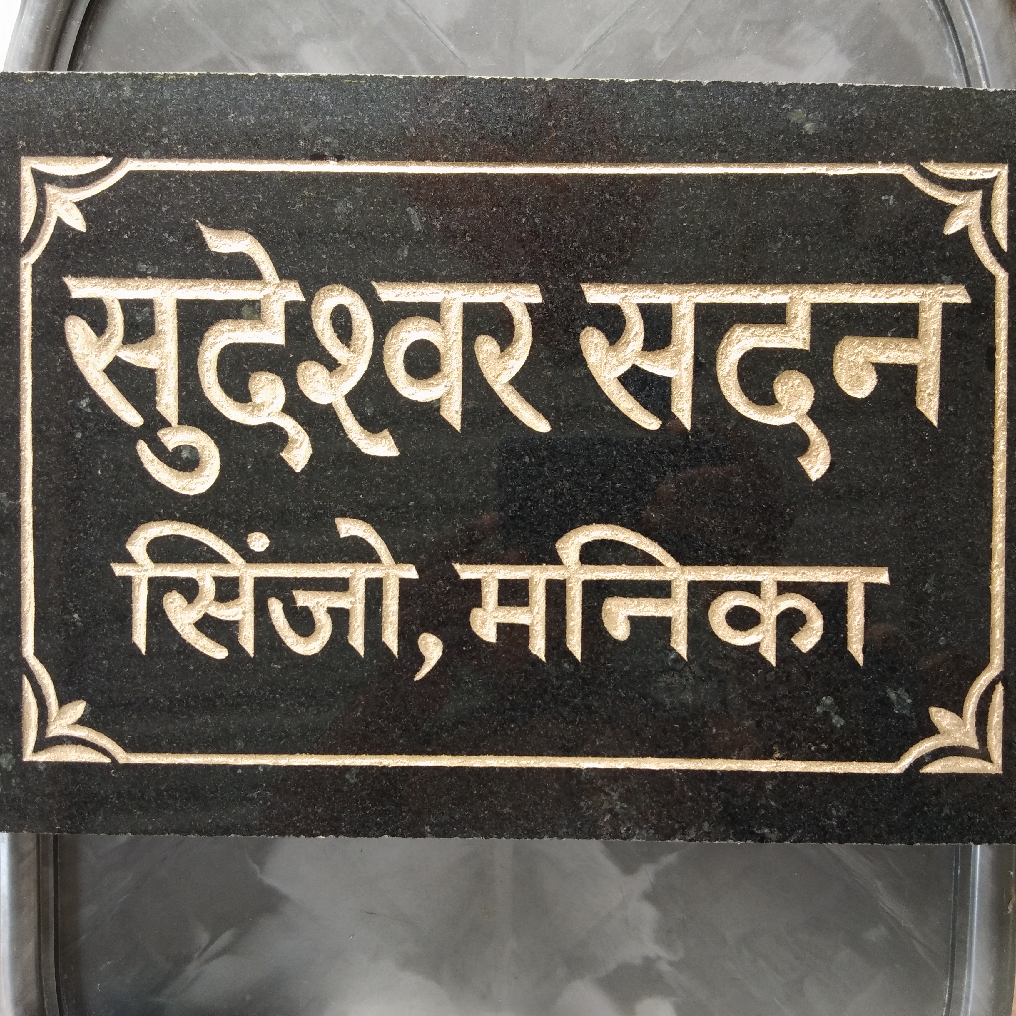 Sudeshwar Sadan is located at Sinjo, Manika, Latehar, Jharkhand, India